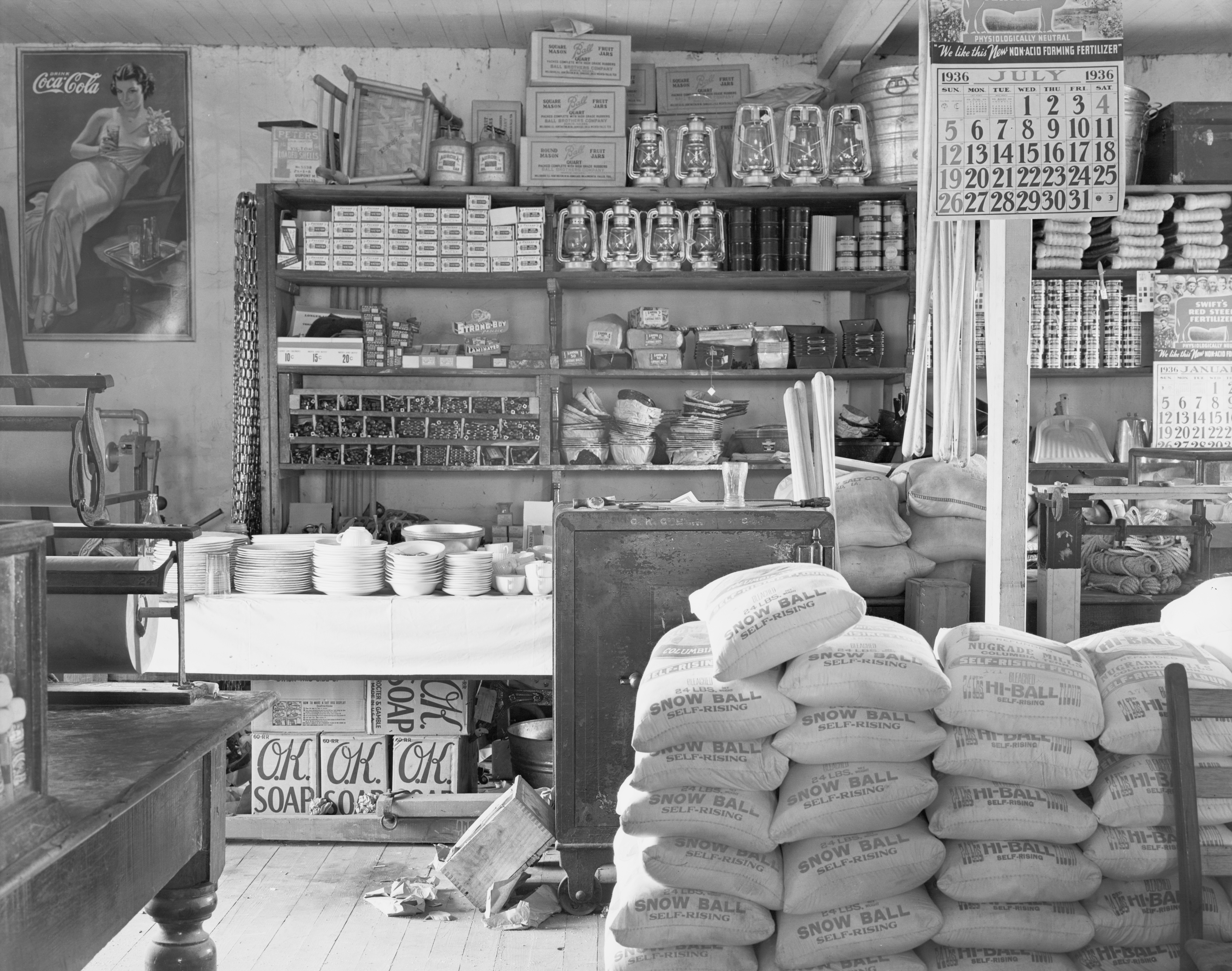 General store interior. Moundville, Alabama, USA Packaged and loose goods are stacked on shelves and the floor. Items visible on the walls include a calendar showing "July 1936" and a Coca-Cola advertisement. Visible items for sale include loose dishes, lanterns, dustpans, padlocks, rope, Mason jars, boxed soaps, boxes of shot-gun shells, canned goods, bags of self-rising flour. Rolls of butcher-paper visible at left. A safe is at center, partially behind bags of flour.